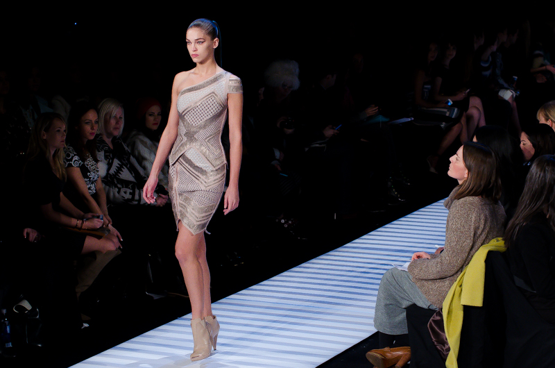 A model walks the runway at Herve Leger Fall/Winter 2014 show at New York Fashion Week, February 2014.